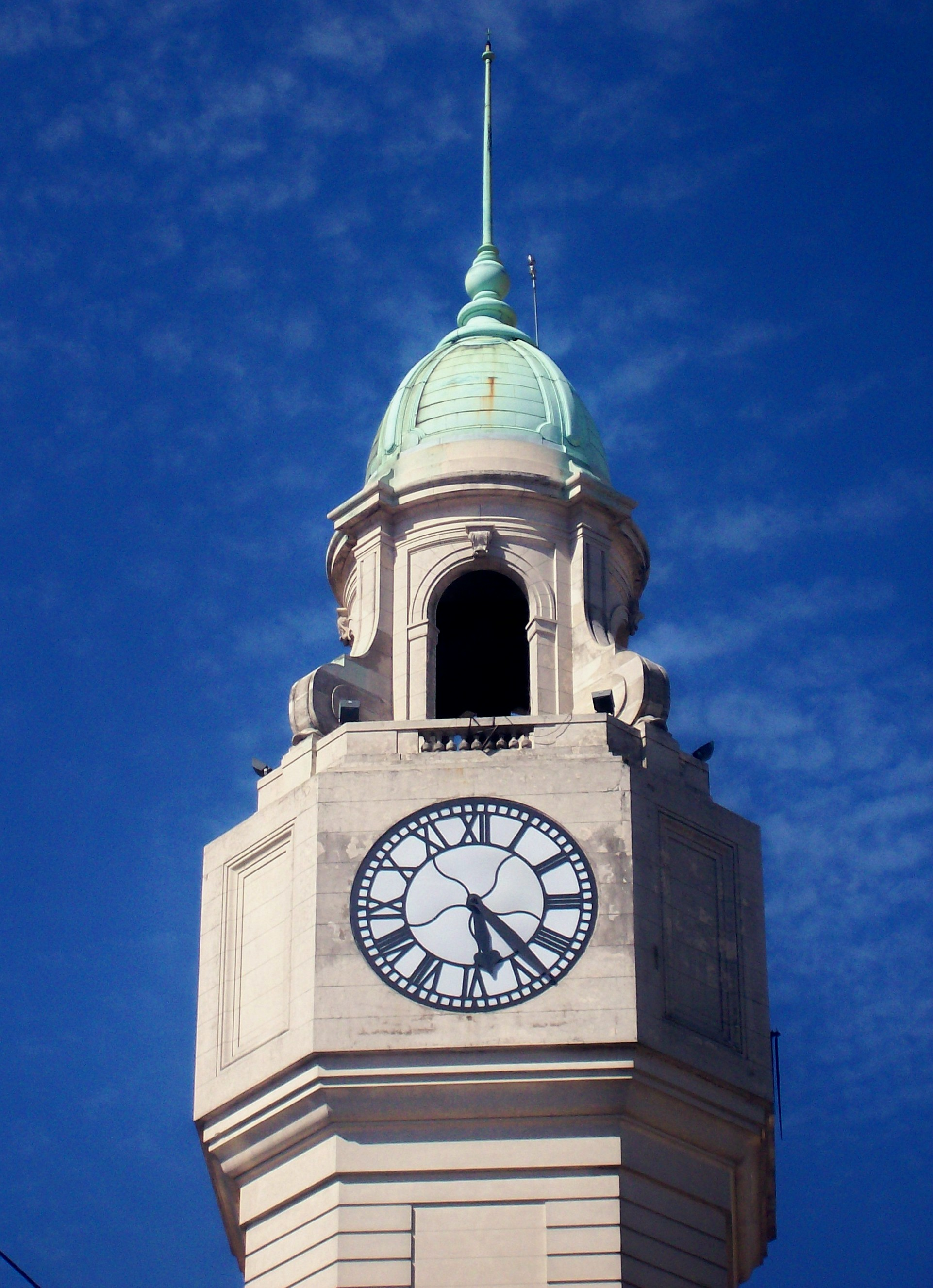 Clok tower of the Palace of the legislature Buenos Aires, Barrio de Monserrat.